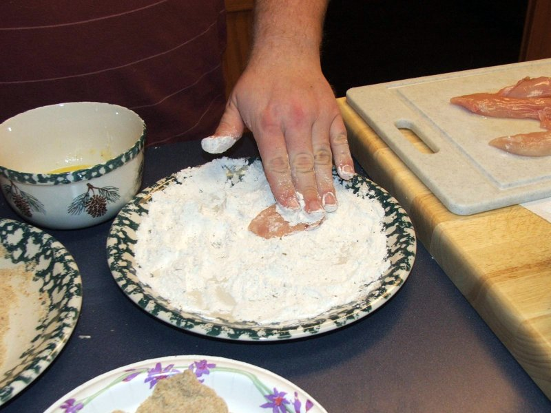 Standard Breading Procedure - Chicken